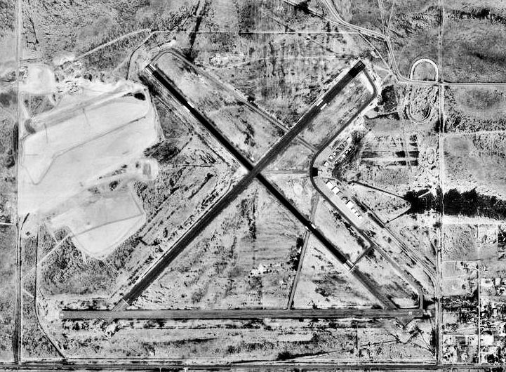 USGS digital orthophoto of Artesia Municipal Airport in Artesia, New Mexico, United States